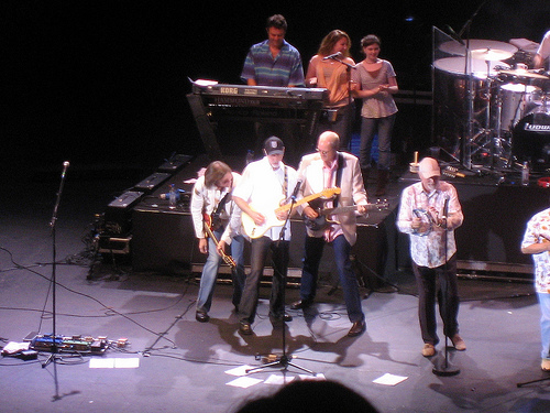 The current touring lineup of The Beach Boys, 2008.